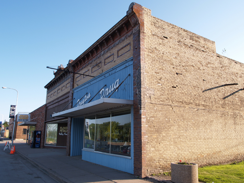 Drayton, North Dakota. From .